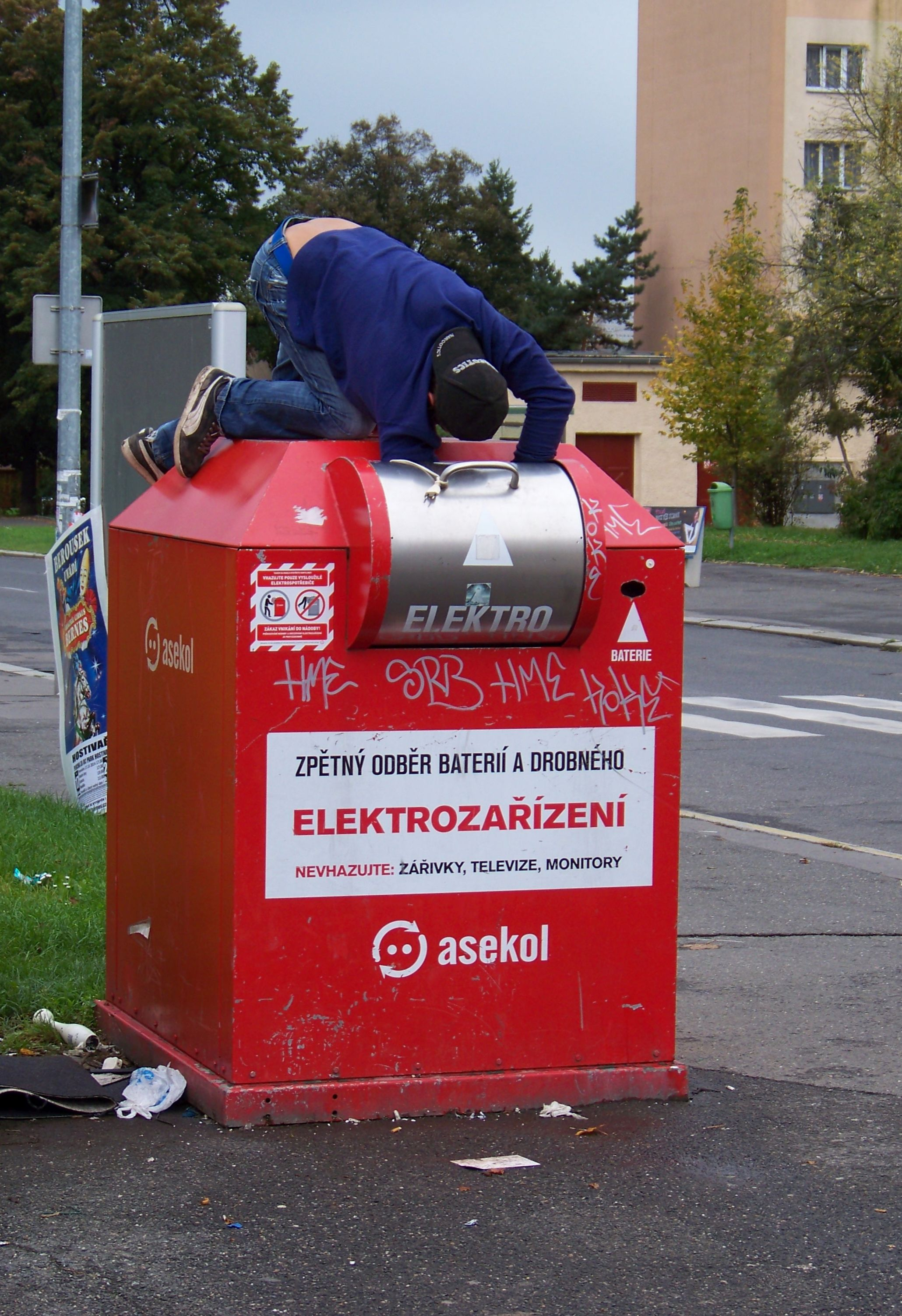 Prague-Záběhlice, Czech Republic. Topolová street, electric waste container.